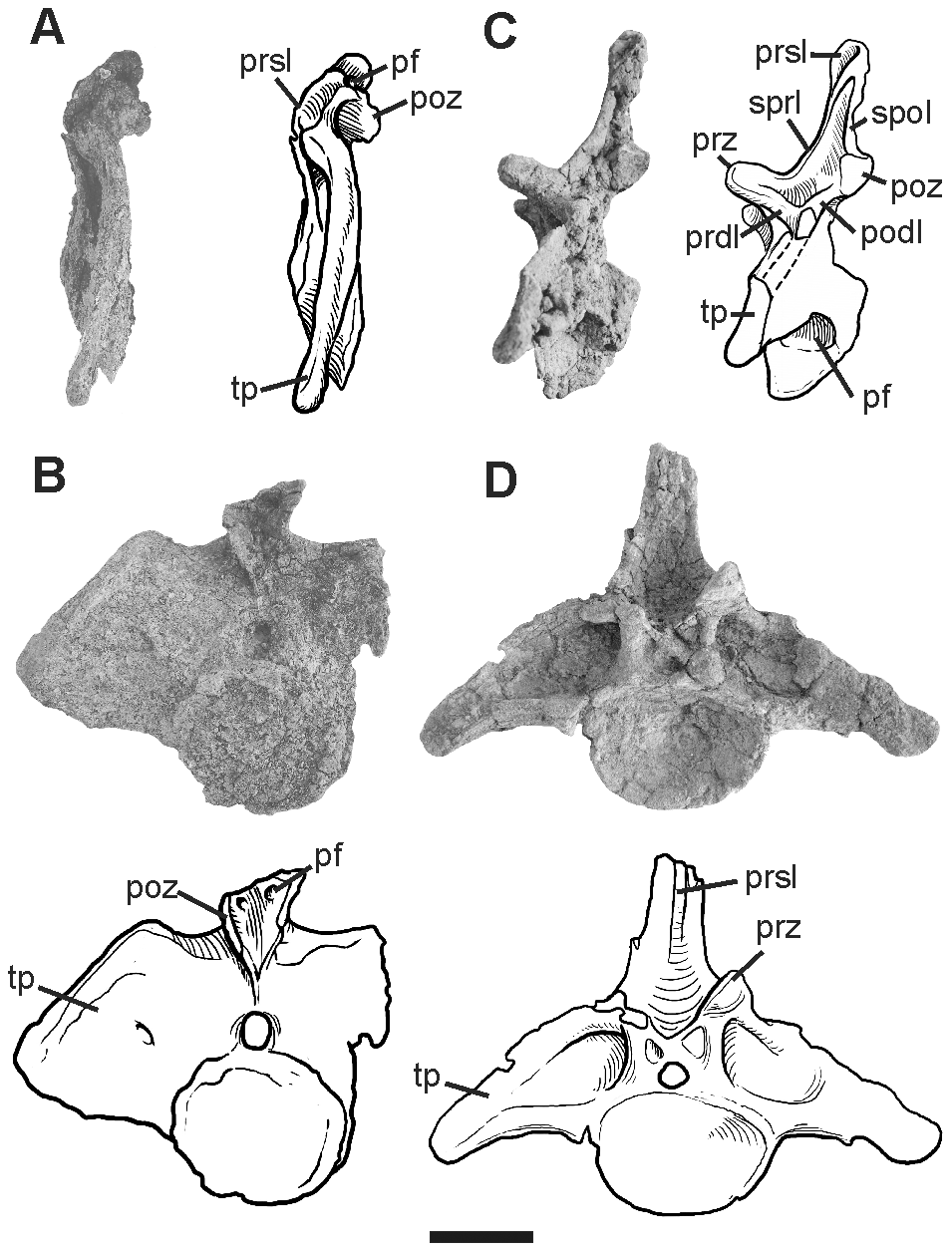 Photographs and half-tone drawings of the anterior caudal vertebrae of Leinkupal laticauda, gen. n. sp. n. (MMCH-Pv 63). Caudal 1-2? in (A) lateral and (B) posterior views. Caudal 7? in (C) lateral and (D) anterior views (reversed). Abbreviations: pf, pneumatic fossa; podl, postzygodiapophyseal lamina; poz, postzygapophysis; prdl, prezygodiapophyseal lamina; prsl, prespinal lamina; prz, prezygapophysis; sprl, spinoprezygapophyseal lamina; spol, spinopostzygapophyseal lamina; tp, transverse process. Scale bar equals 10 cm.